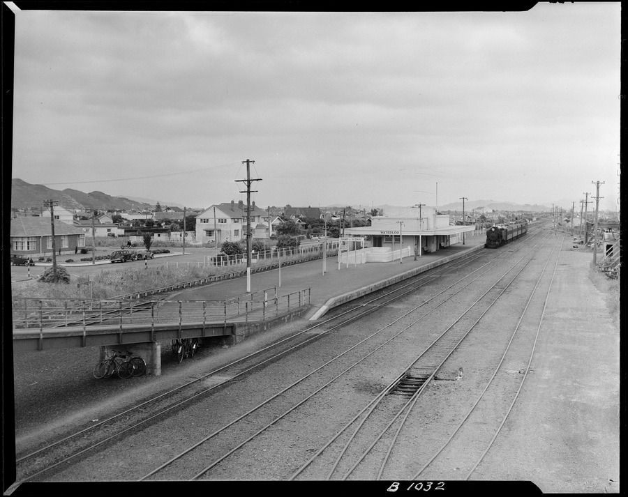 Title: CAPTION: Waterloo Station general view. PHOTOGRAPHER: J.F. Le Cren DATE: 7 December 1950 Archway Item ID:R25618015 Archway Series Number:6390 Provenance:Transferred by agency AAVK Material Type: Digitised